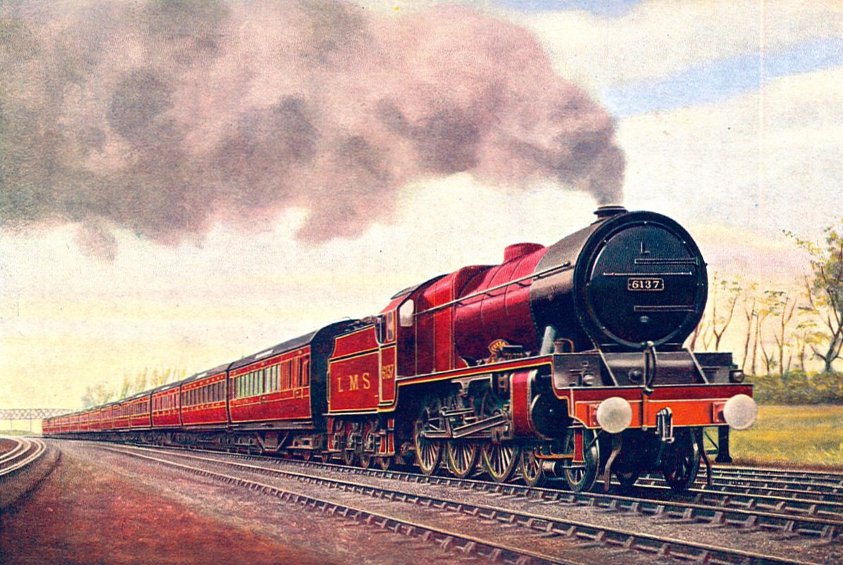 The "Royal Scot" Express, LMS Hauled by "Royal Scot" Locomotive, No.6137 "Vesta".